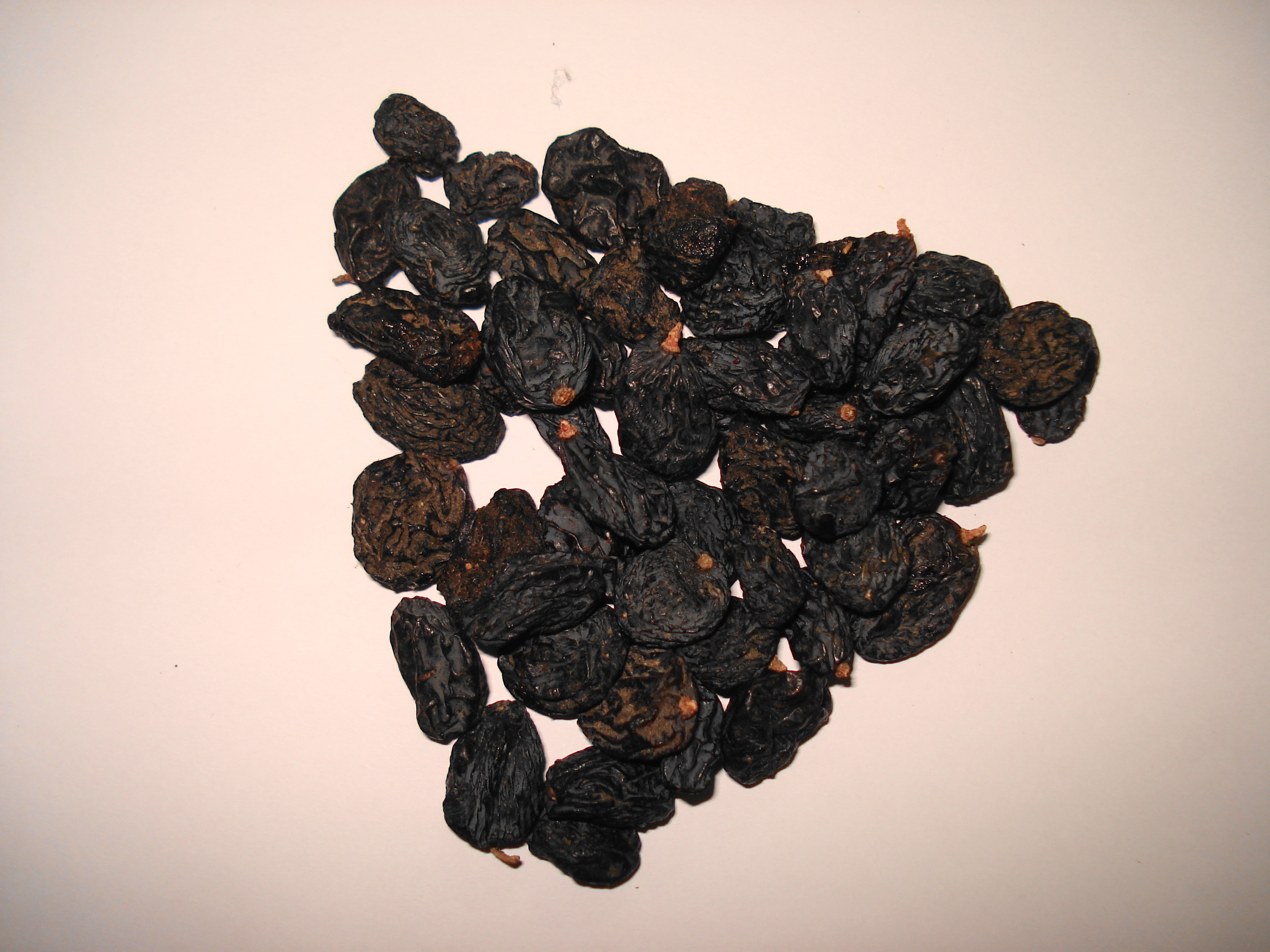 Kali kishmish